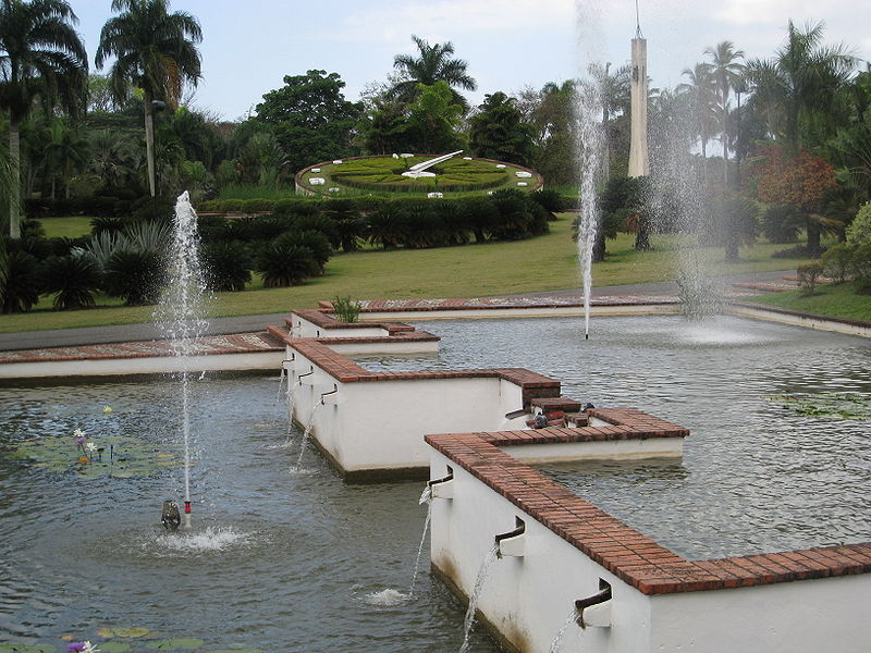 Floral clock in the Dr. Rafael Ma. Moscoso National Botanical Garden